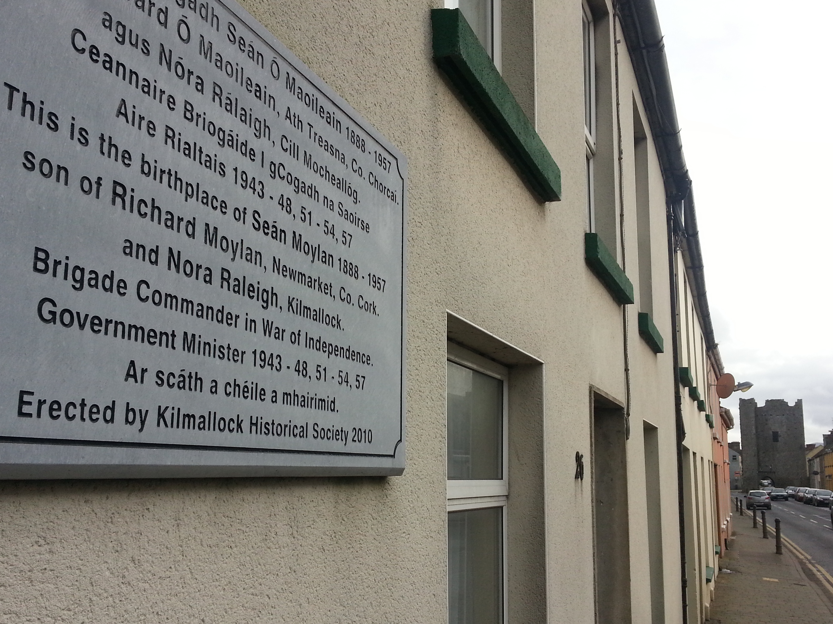 Plaque erected by Kilmallock Historical Society marking the birthplace of Sean Moylan.